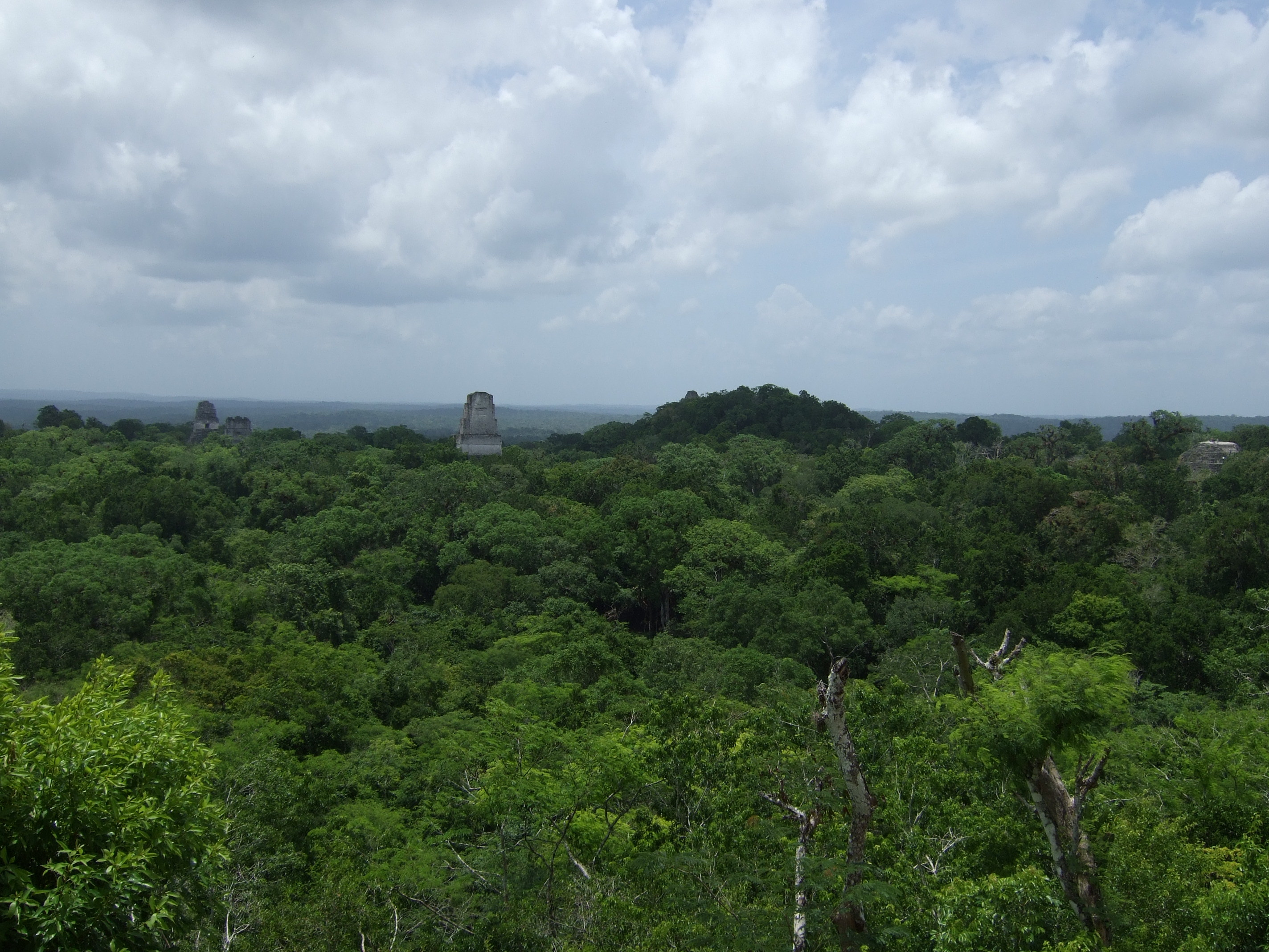 A scene from the rebel base of Yavin.